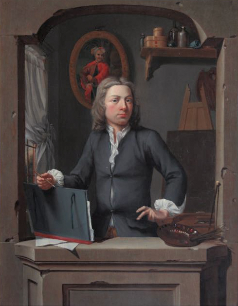 Gerrit Zegelaar (1719-1795) at a young age oil on panel 48 x 38 cm 1739 - 1743